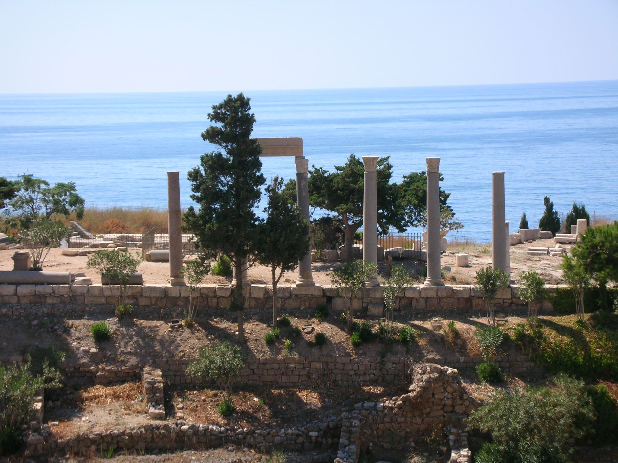 Byblos (Lebanon)